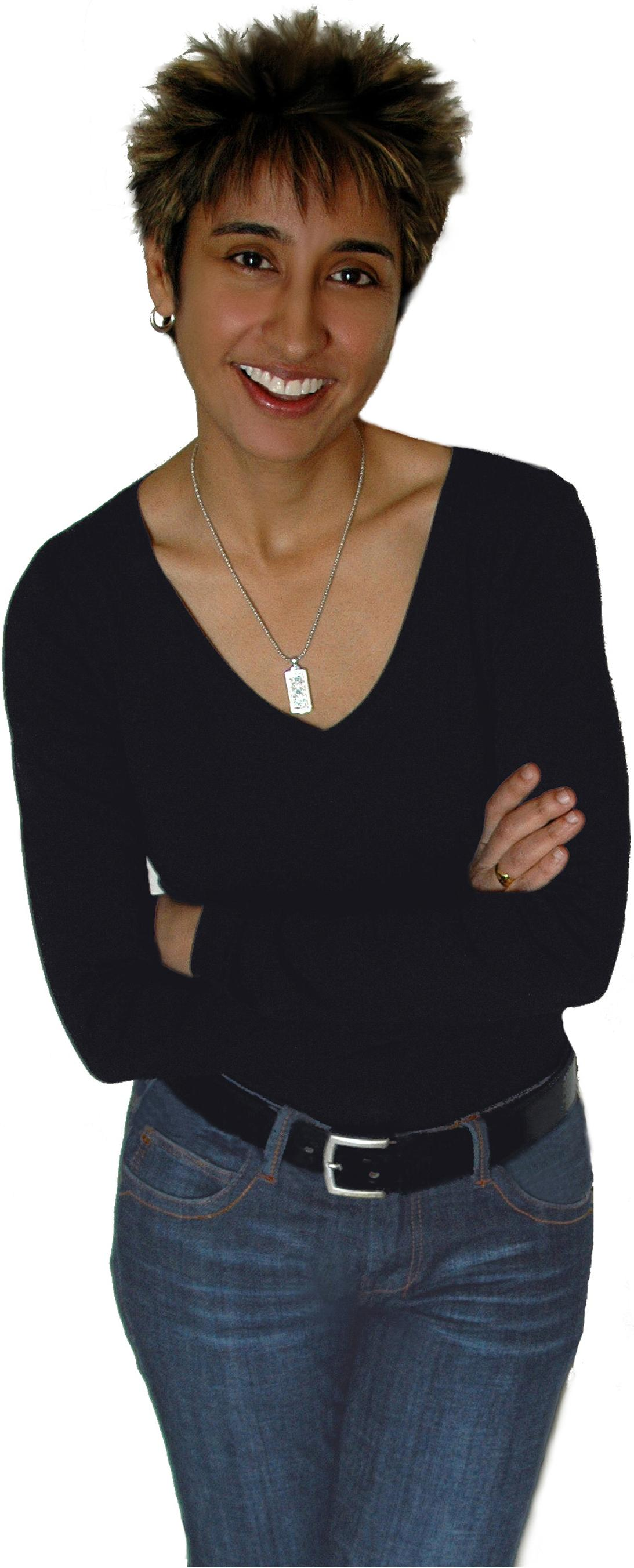 Photograph of Irshad Manji, author of "The Trouble with Islam Today"